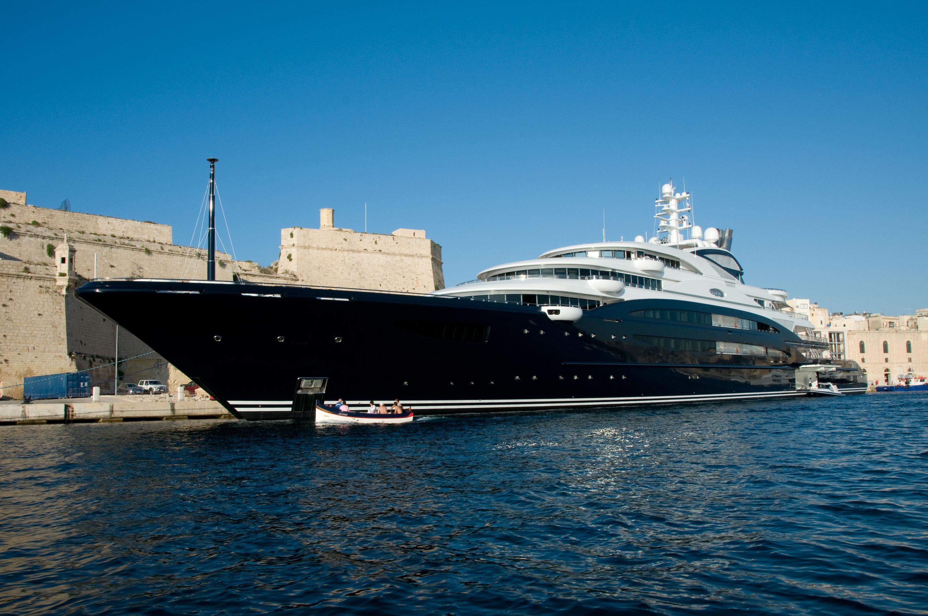 Yacht: Serene Maker: Fincantieri Location: Birgu, Malta